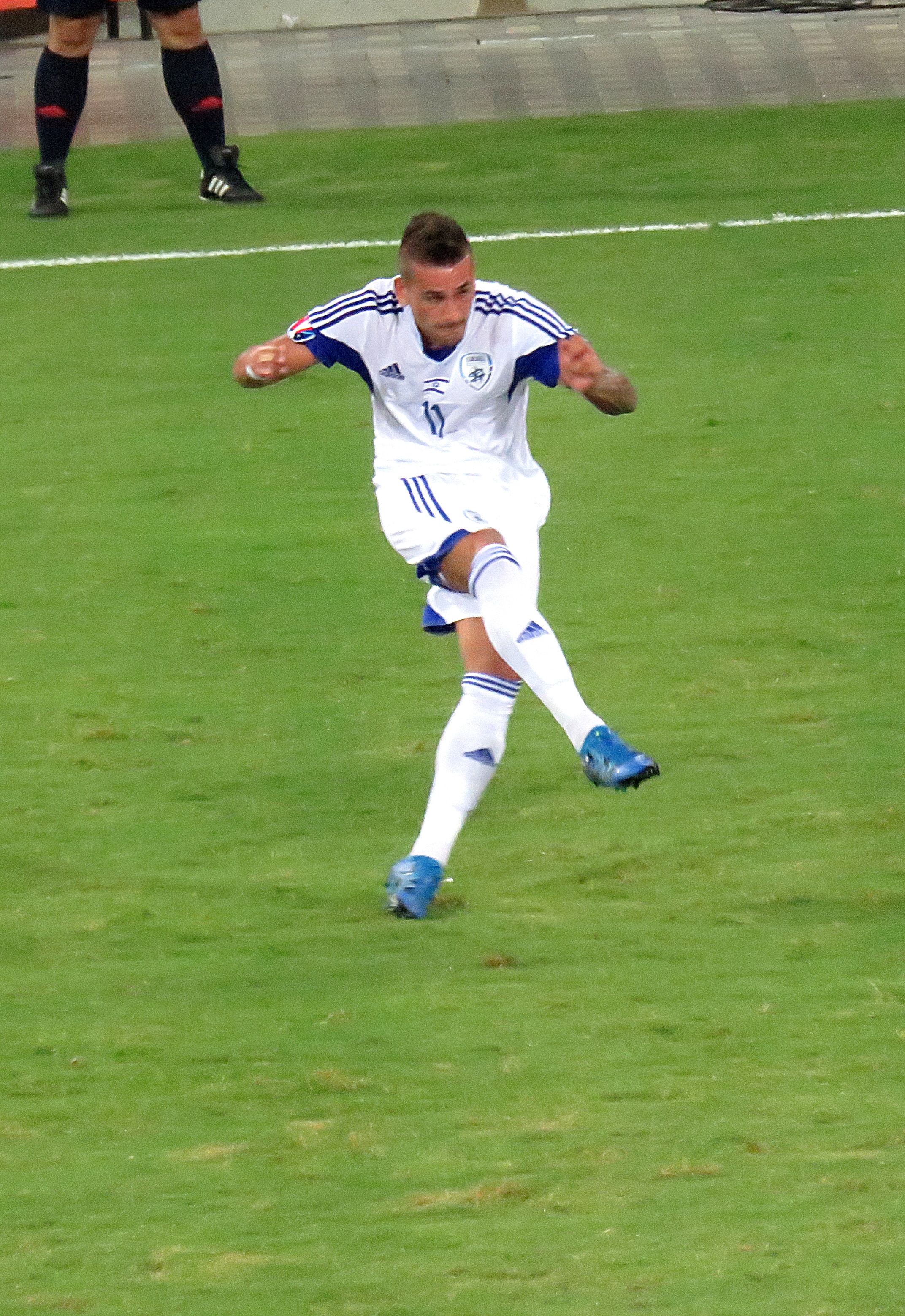 Israel vs. Andorra - September 3, 2015